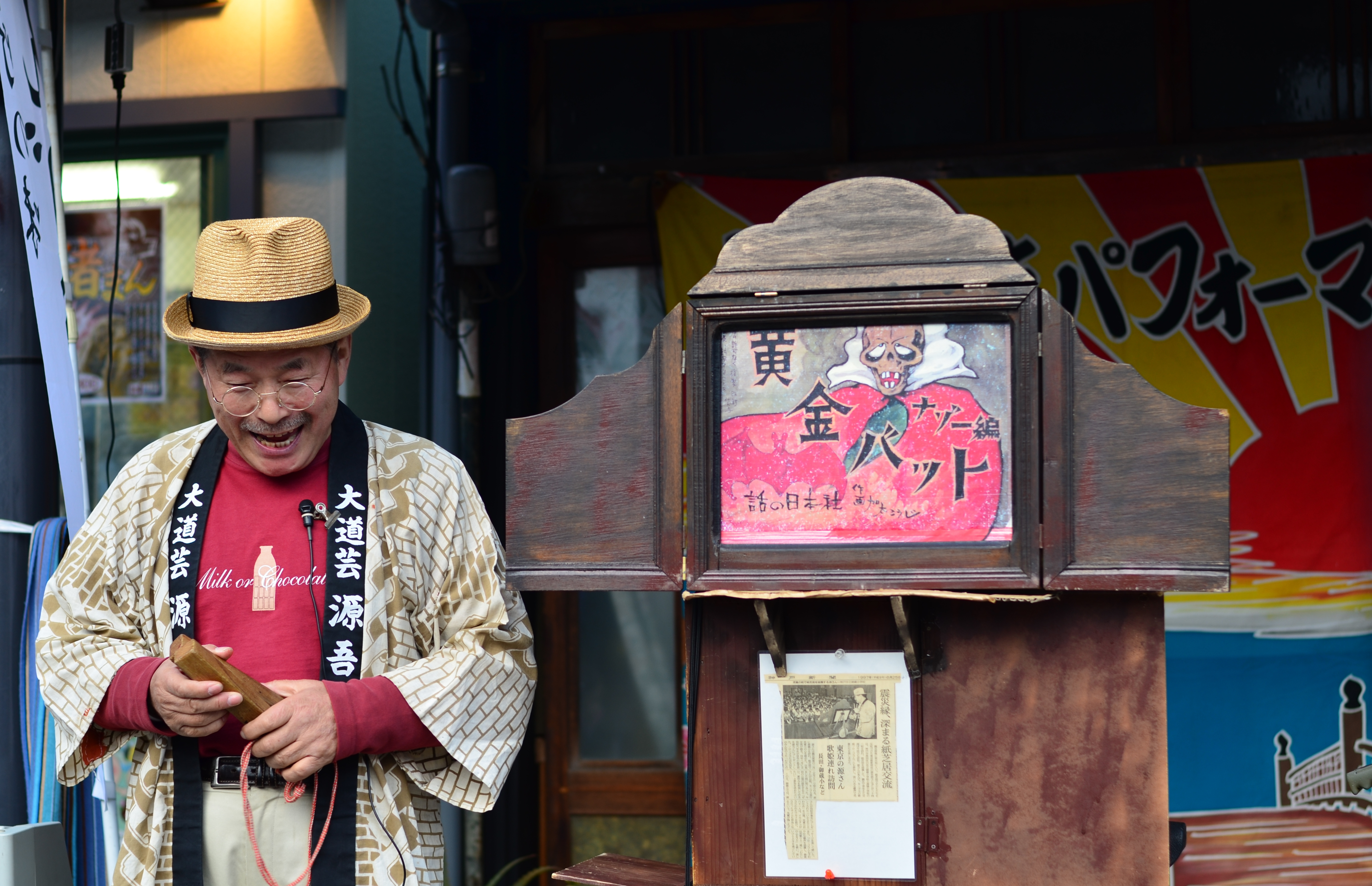 A kamishibai artist in Japan. kami-shibai: a picture‐story showman. Camera: Nikon D7000 License on Flickr (2011-01-27): CC-BY-SA-2.0 Flickr tags: japan, traditional, picture-story-show, kamishibai, 紙芝居, Asakusa, Tokyo, D7000